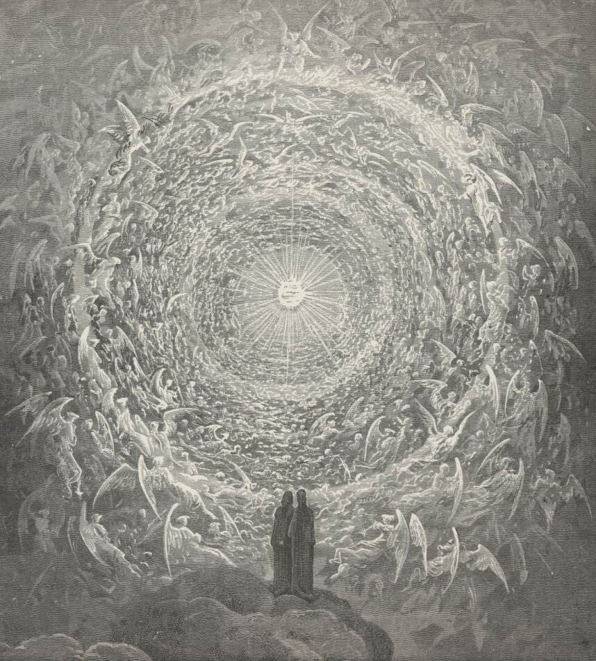 Paradise (Paradiso) illustration by French artist, Gustave Dore.